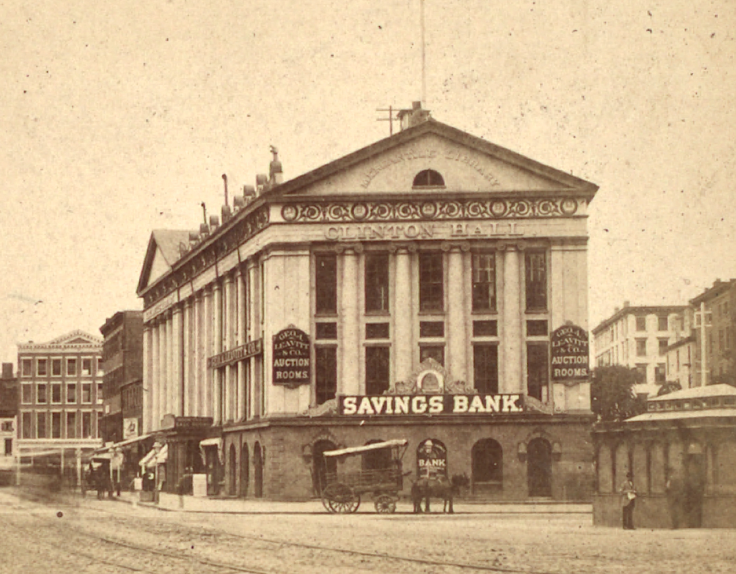 Jpg version of File:Clinton Hall, New York, from Robert N. Dennis collection of stereoscopic views - cropped.png